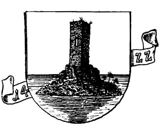 Coat of arms of Kruszwica. Depiction by F. A. Vossberg, 1866